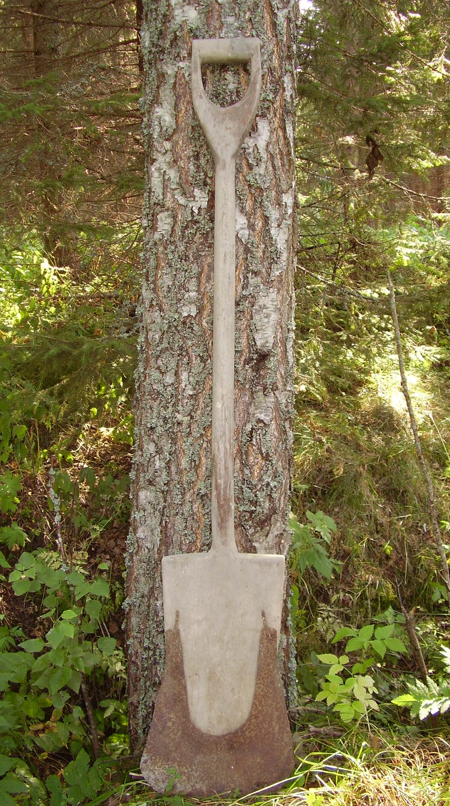 Old tree spade.